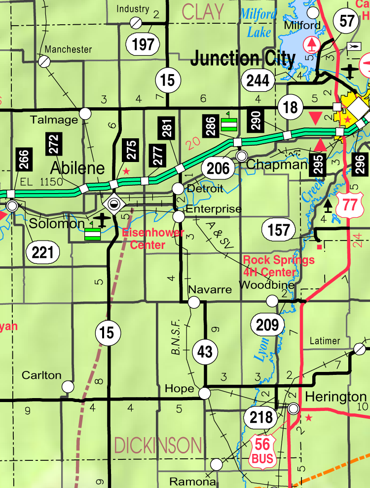 This map of Dickinson County, Kansas, USA, is copied at a resolution of 300 pixels/inch from the original PDF file.